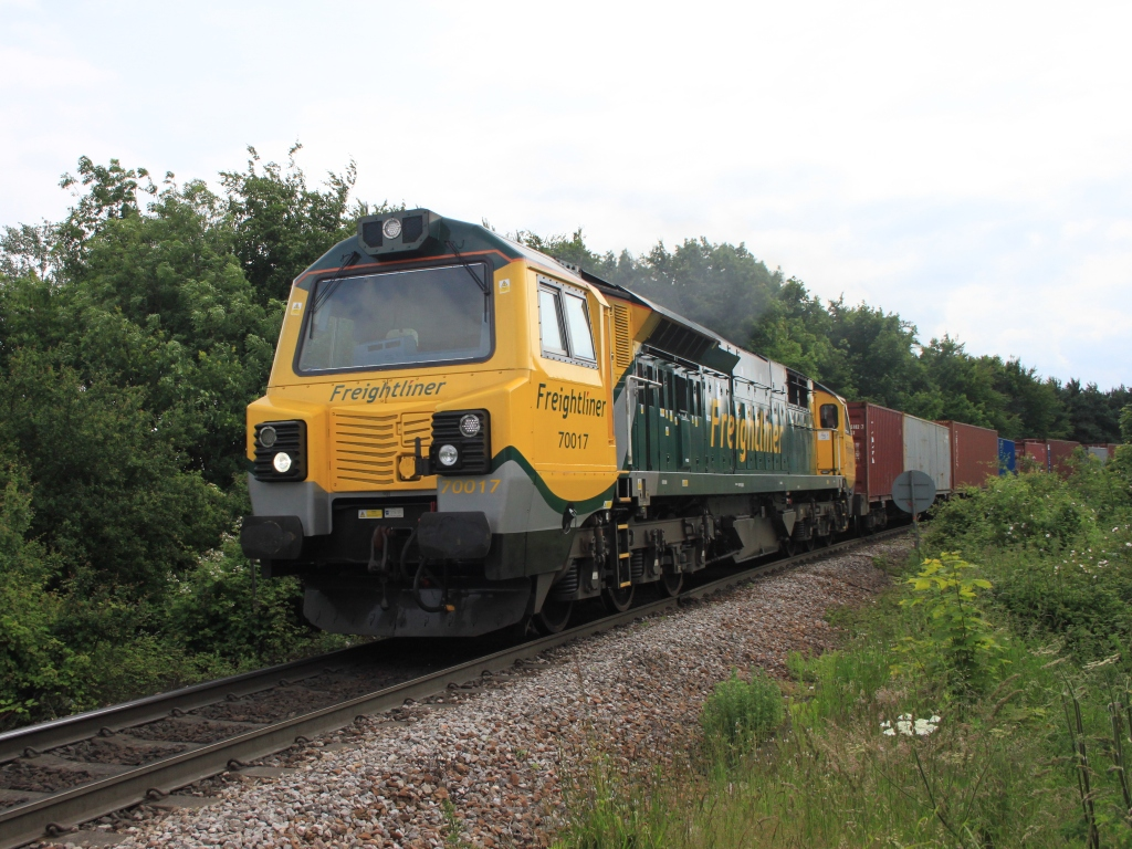 Freightliner's 70017 lifts a container train out of the Port of Felixstowe's North Terminal towards Trimley.